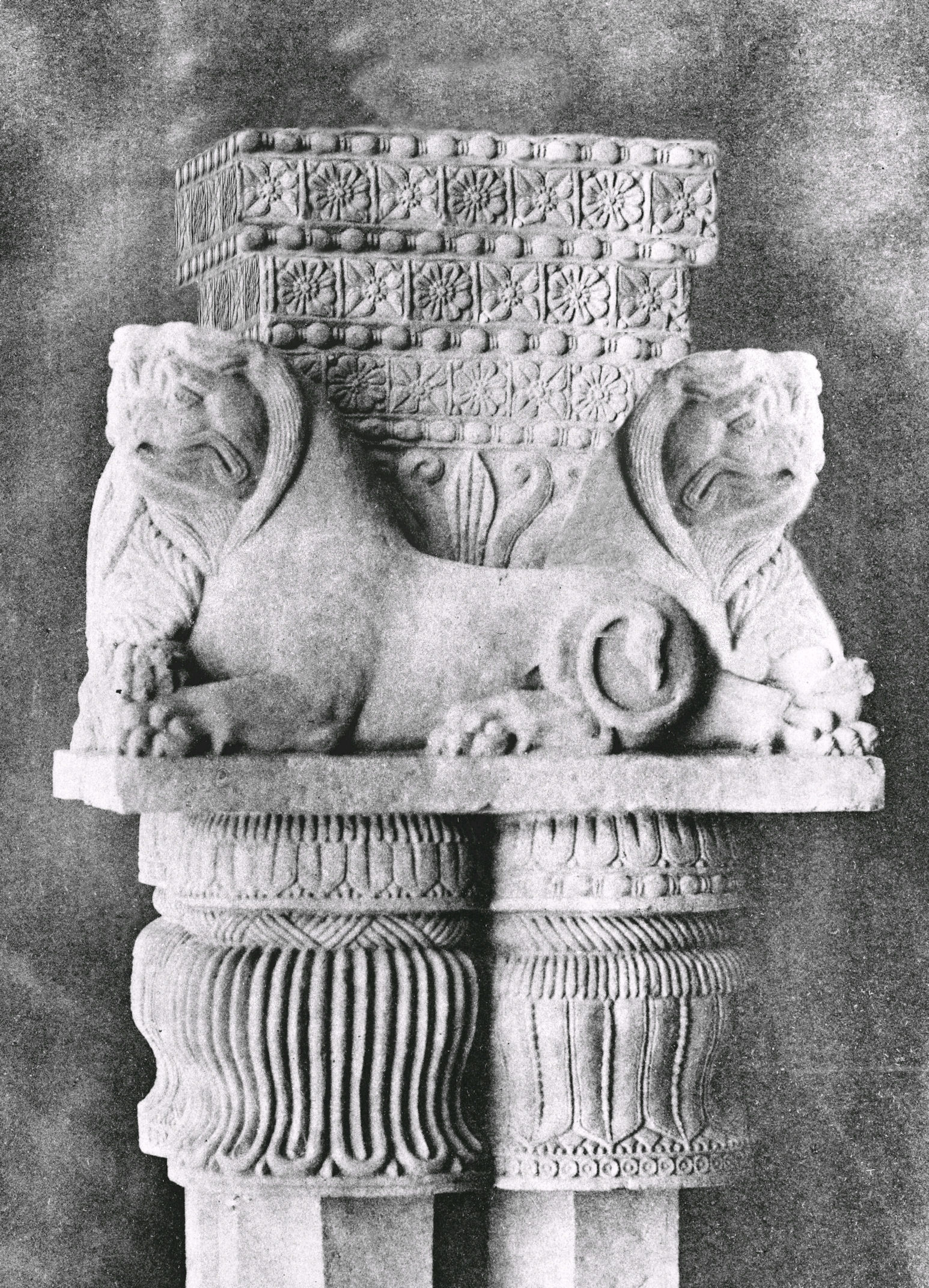 Bharhut capital extrapolated restoration. Other views: Reference. Another frontal view Front and left side view. Back view. For reference, occurence of "step pyramid" capital on a Sunga relief at Sanchi.